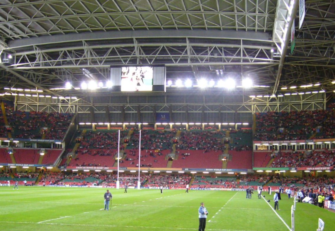 Millennium Stadium (Glanmor's Gap) Centre, Cardiff, Wales